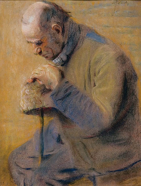 Zamyślony starzec